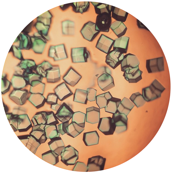 Lysozyme crystals stained blue with Izit dye